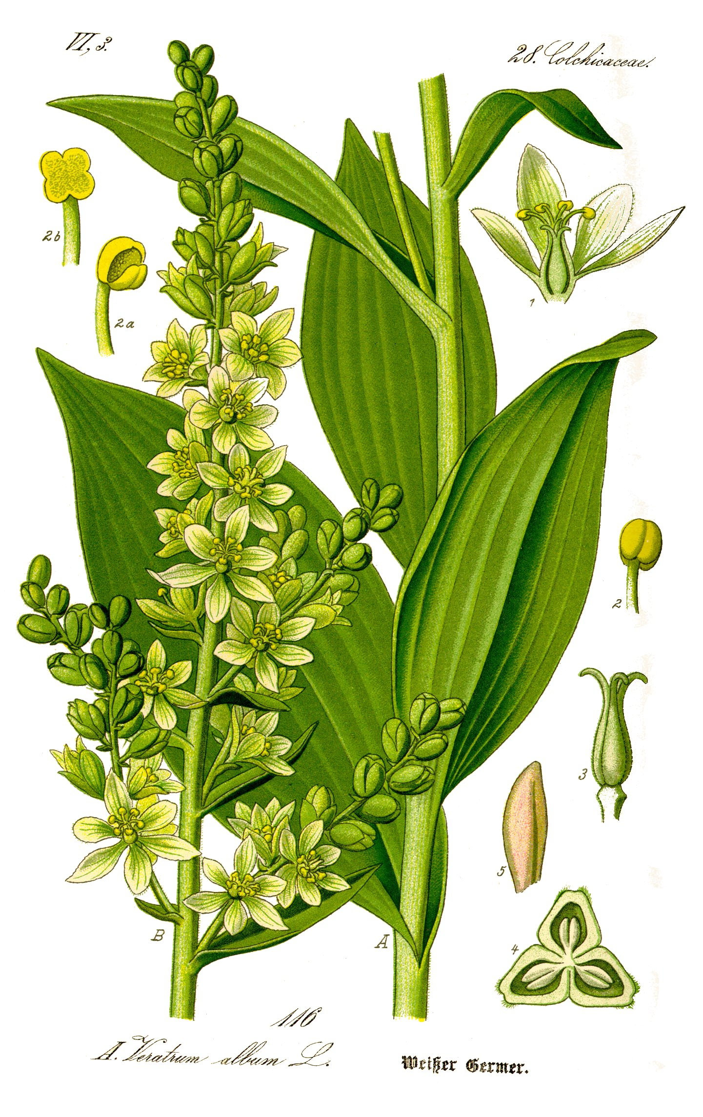 Name Veratrum album Family Melanthiaceae Clean version